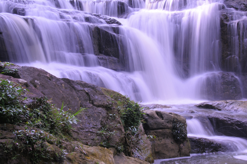 Idaman Waterfall, Tanjung Selor, Kalimantan Timur